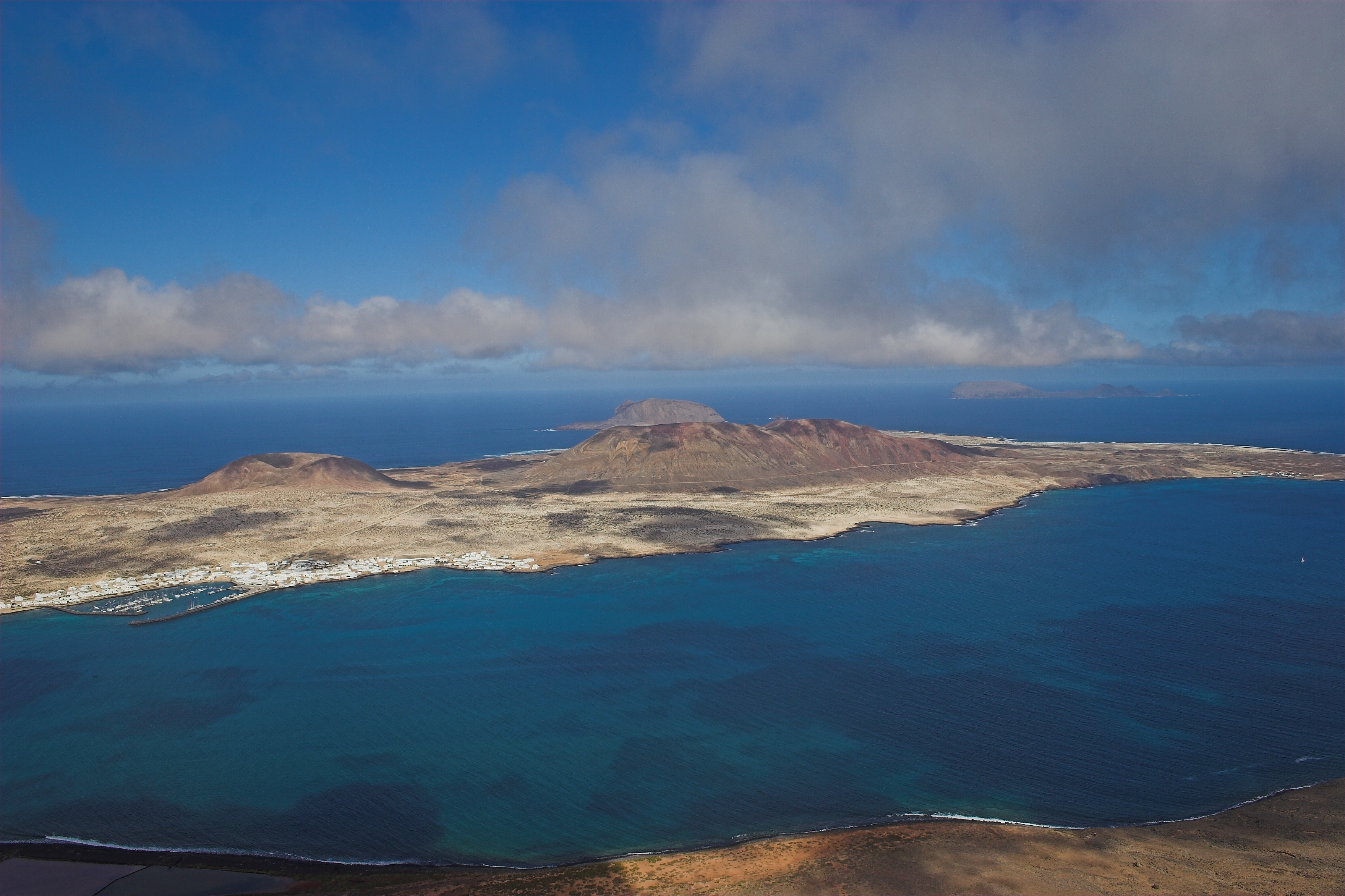 La Graciosa seen from Mirador Del Rio on Lanzarote.